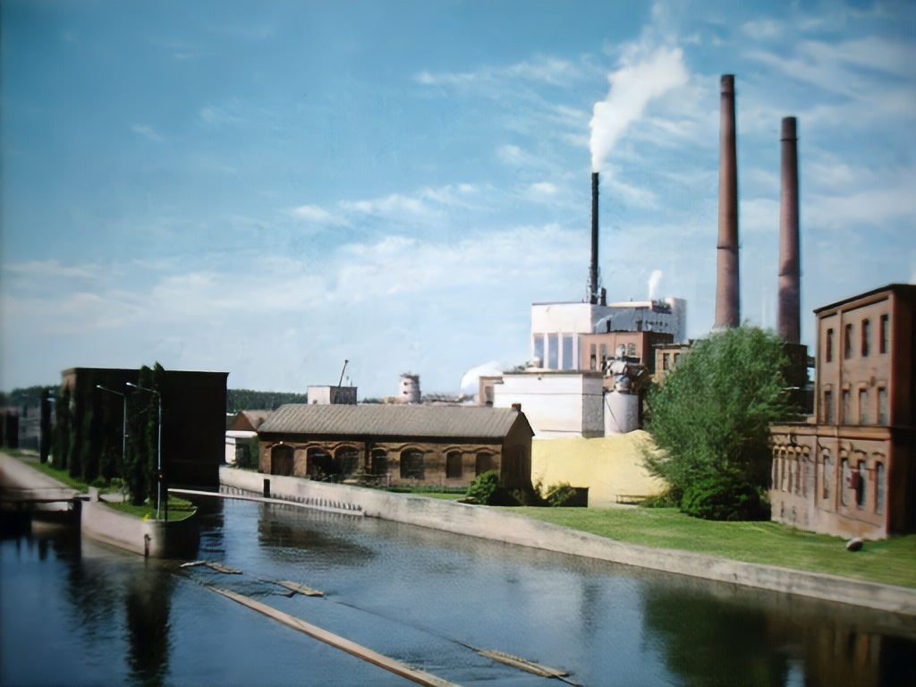 Picture of Valkeakoski in Finland.